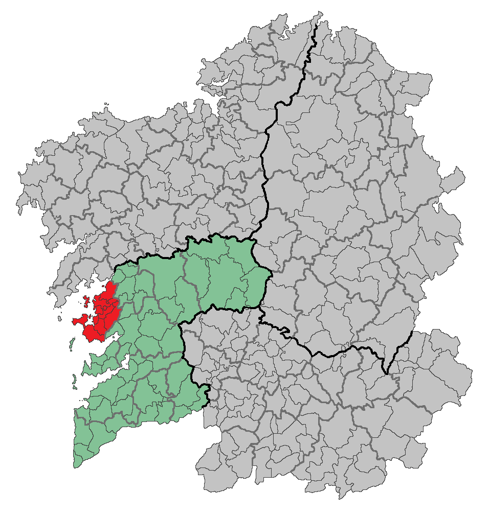 Region of Galicia (Spain) Based in: Image:Location of Betanzos.png Source: Designed by Leoplus. Original picture, designed by Caiser over a work made by Alyssalover.